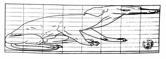 anamorfosis